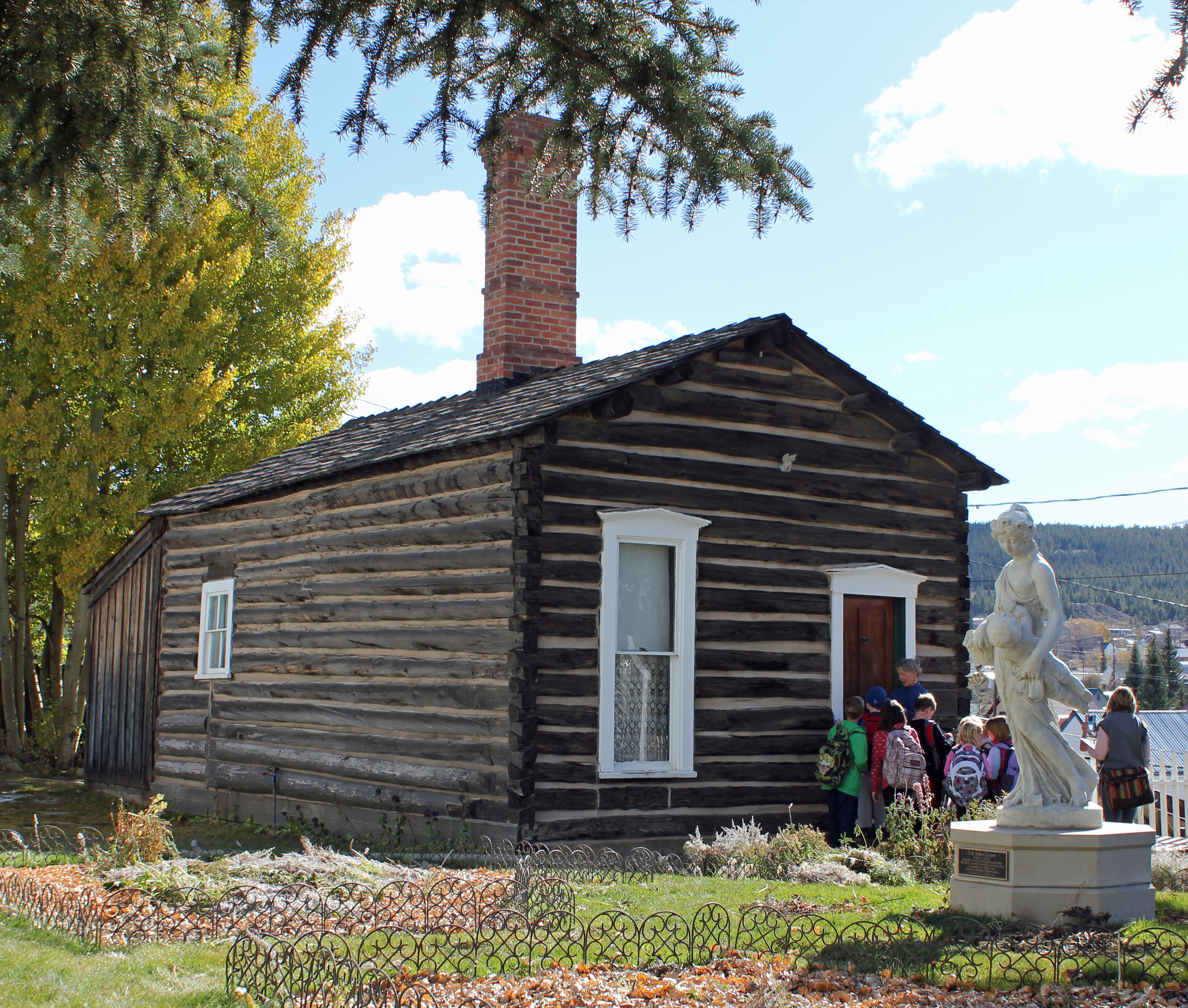 Dexter Cabin, located at 912 Harrison Avenue in Leadville, Colorado. The structure is listed on the National Register of Historic Places.